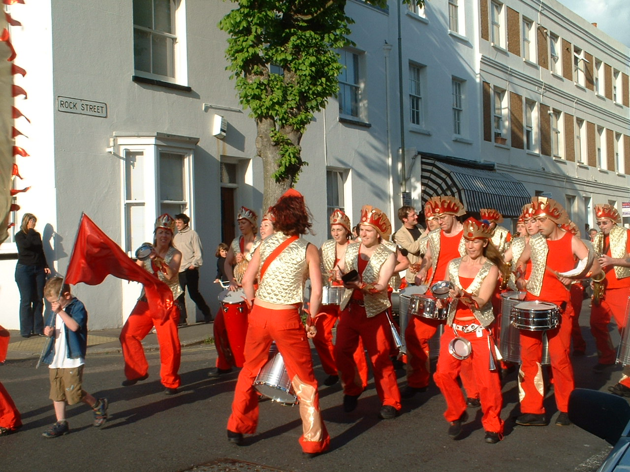 Samba performers during a carnival procession in Kemptown, Brighton, UK